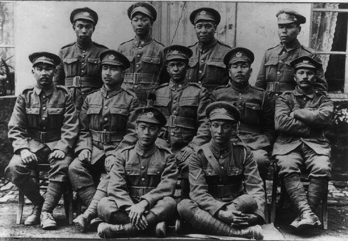 Photo of the11th platoon (Japanese section) of the 10th Battalion, CEF. At the far left is Masumi Mitsui, when he was still a private.